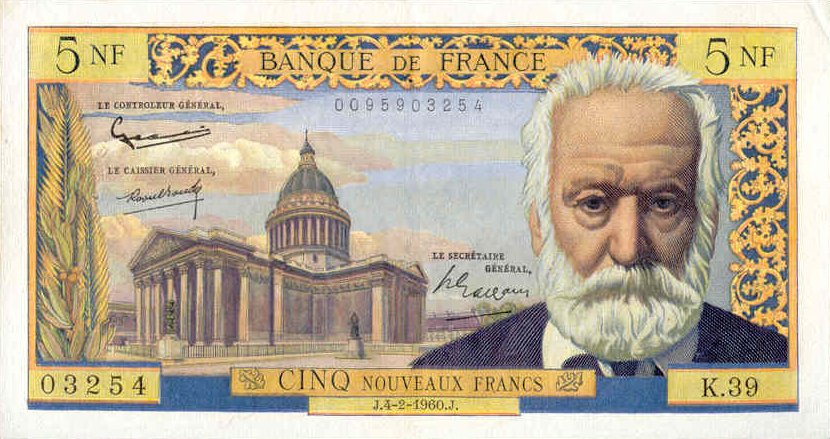 5 francs